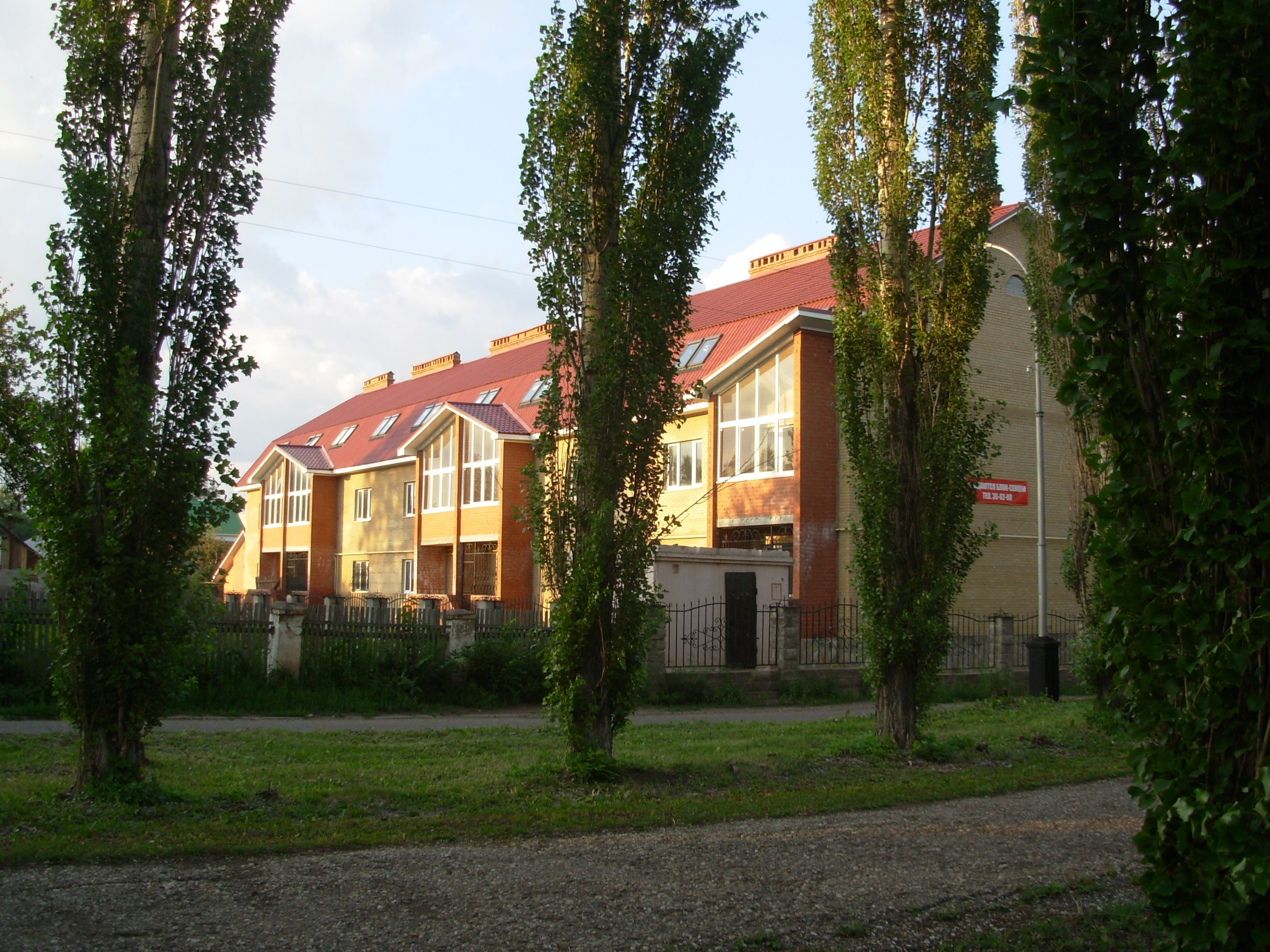 street salavat russia